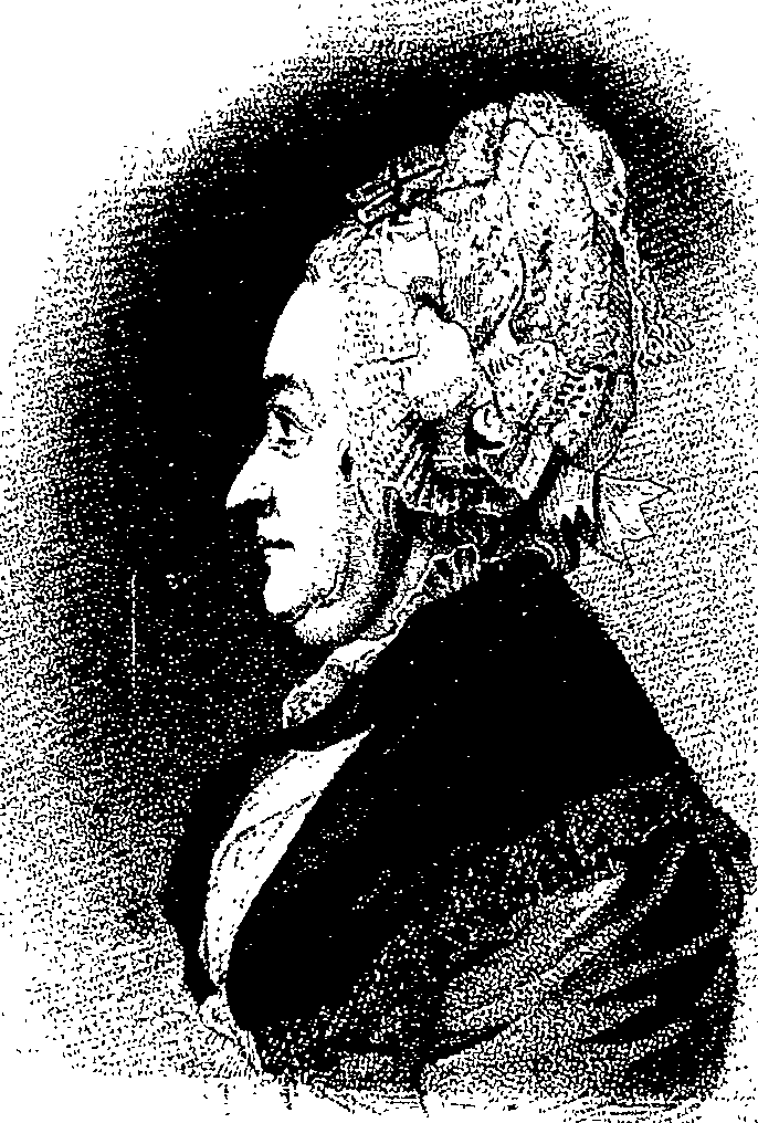 Fleuron from book: Poems on several occasions. The fourth edition. By Mrs. Elizabeth Carter.